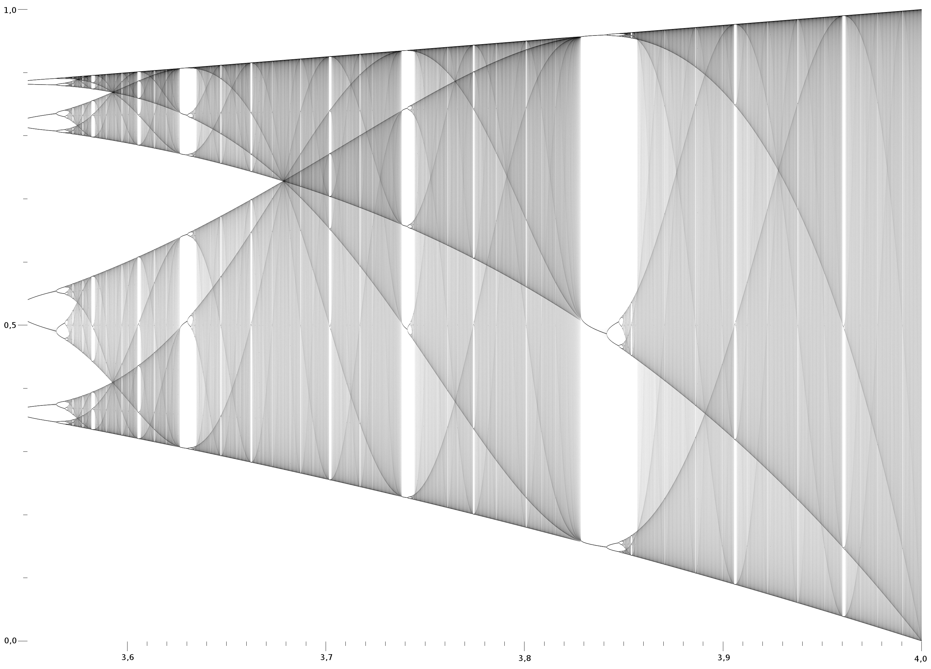 High resolution subsection of the bifurcation diagram of the logistic map.